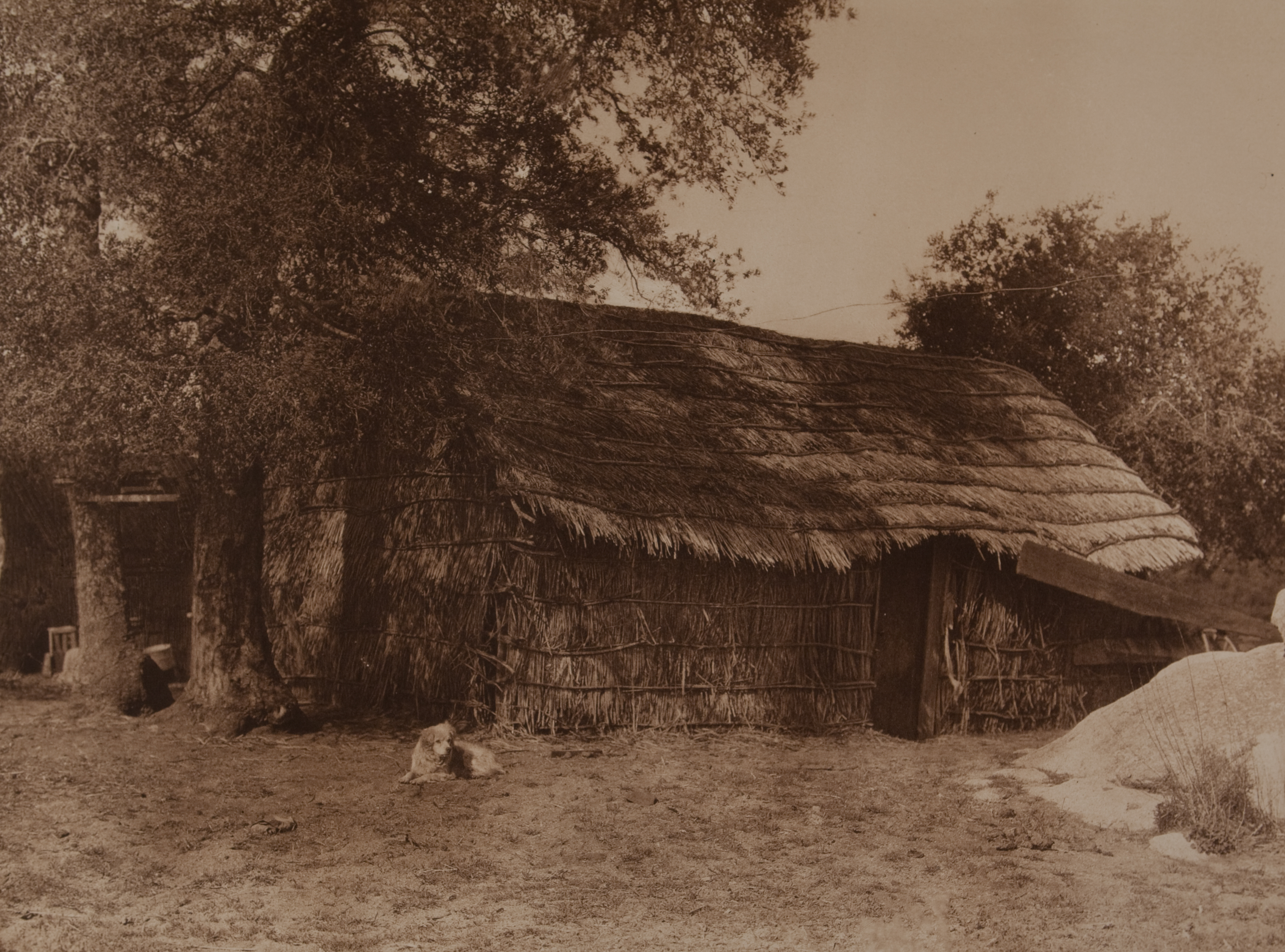 Title: A Diegueno Home Artist: Edward Sheriff Curtis Artist Bio: American, 1868 - 1952 Creation Date: 1924 Process: photogravure on Van Gelder Zonen paper Credit Line: Gift of Mary and Dan Solomon Accession Number: 2003.004.003